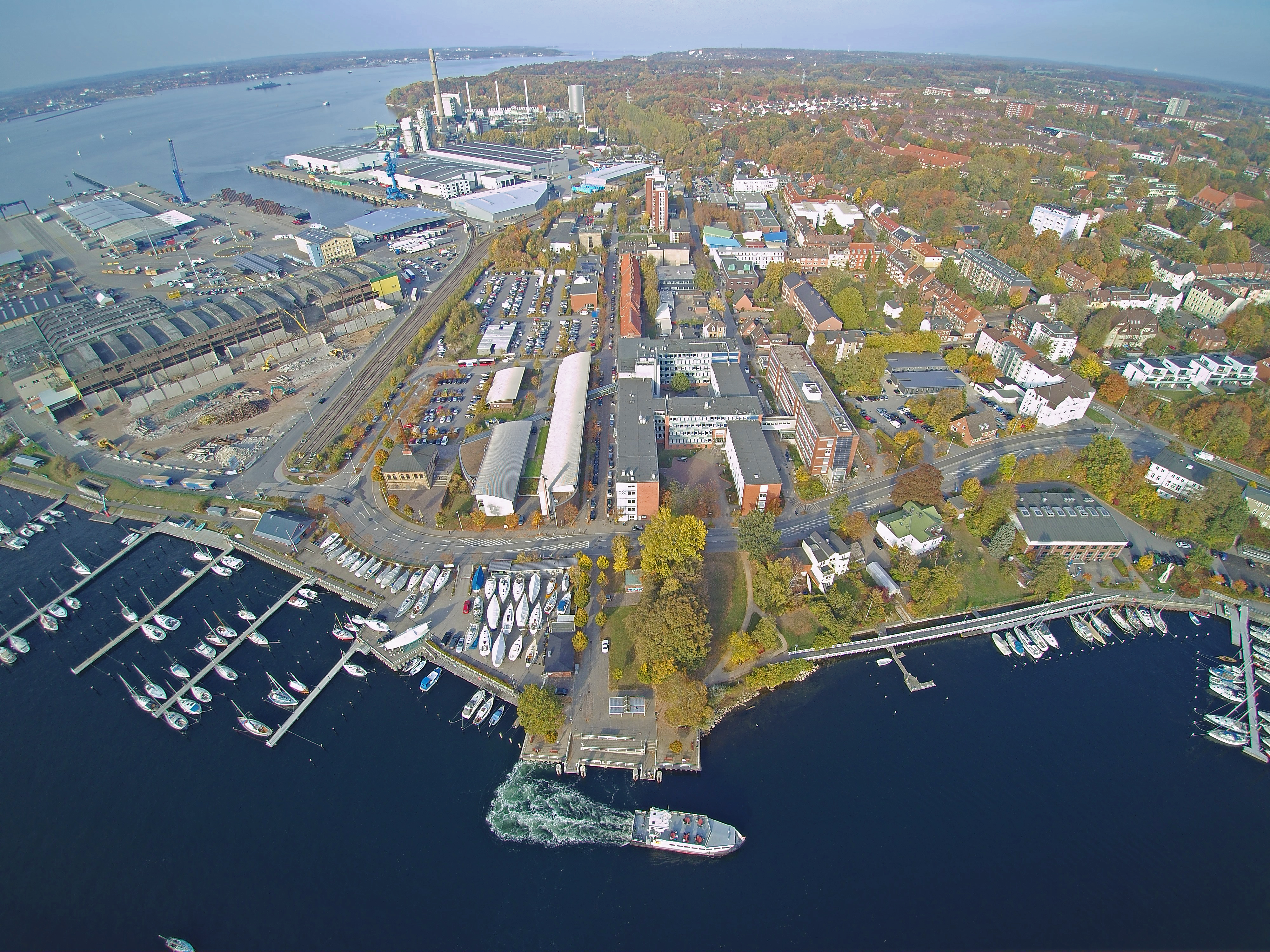 In this photo taken by an air drone the campus of the Kiel University of Applied Sciences can be seen in the center. The camera points towards the north. Adjacent to it the port of Kiel, one of the local power plants and neighbouring houses of the district Dietrichsdorf can be seen. At the bottom the river mouth of the Schwentine into the Fjord of Kiel can be seen with a commuting ferry connecting the Kiel University of Applied Sciences and GEOMAR Helmholtz Centre for Ocean Research Kiel with the other side of the bay.